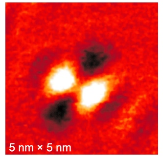 SP-STS image of single oxygen atom chemisorbed on a Fe�(110) substrate.